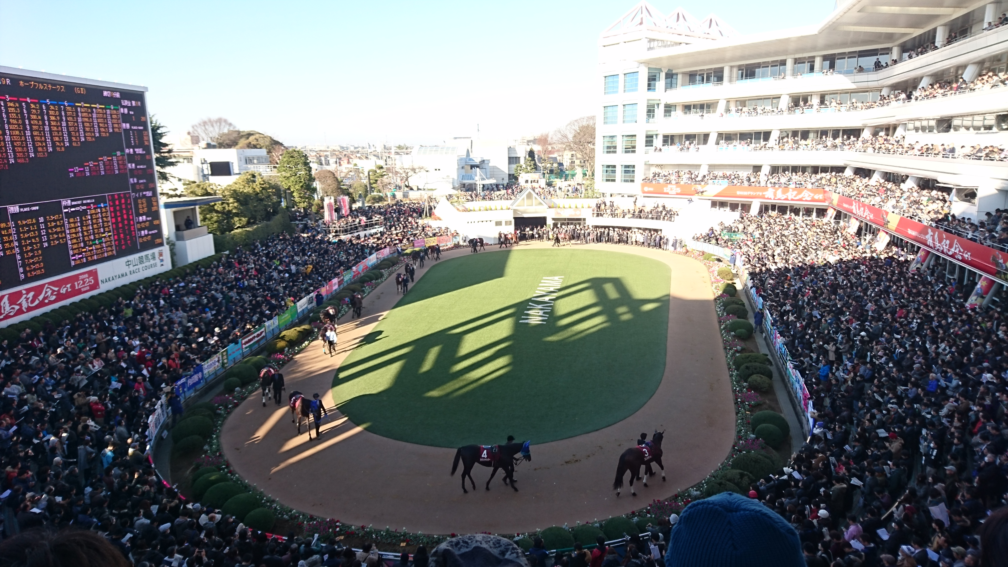 Hopeful S (Japan) (December 25,2016), Nakayama Racecourse